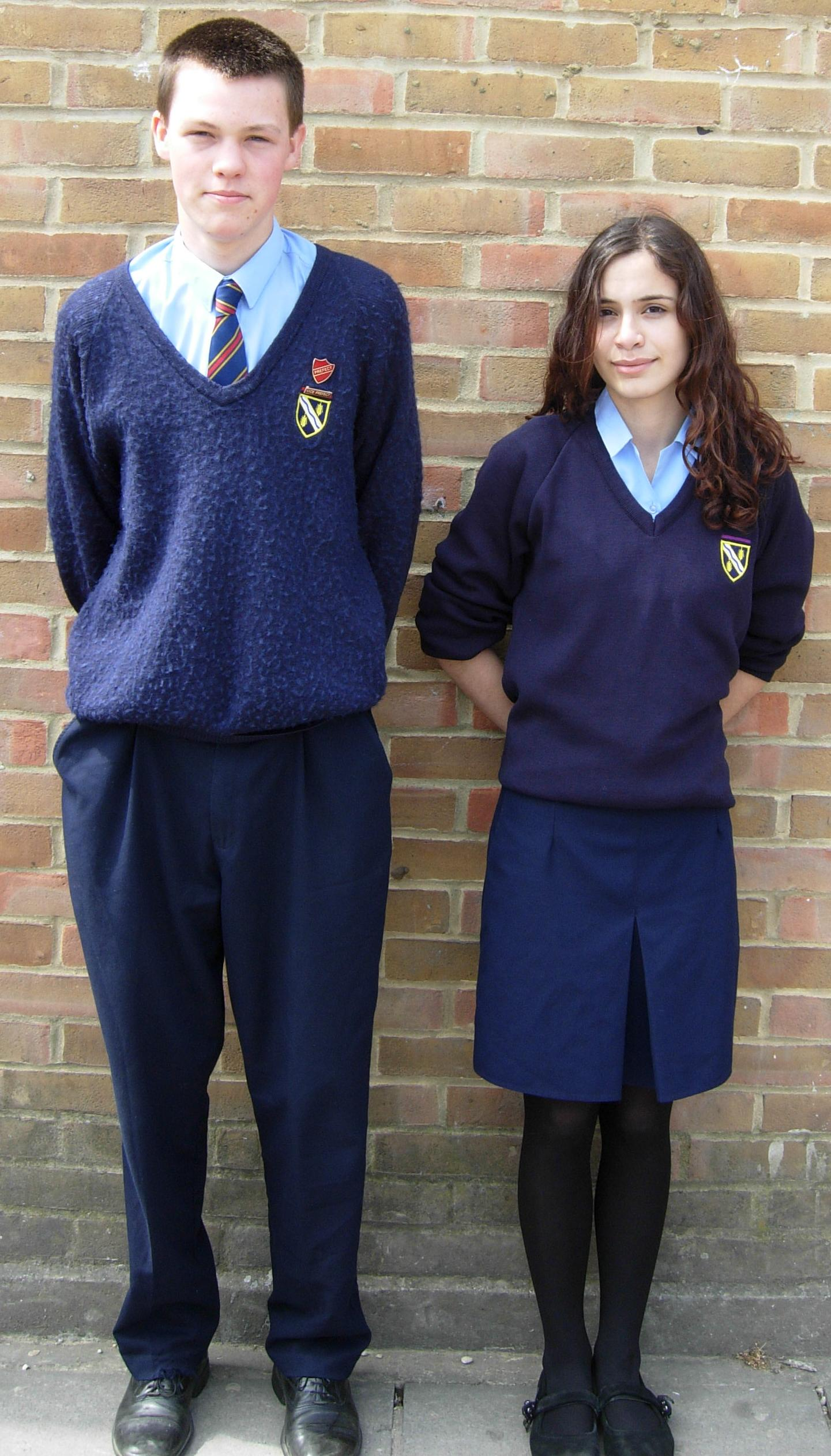 Two pupils wearing the uniform of Kennet Comprehensive School.